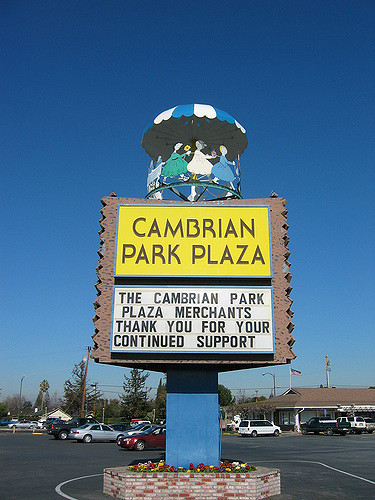 Sign and Carousel at the Cambrian Park Plaza